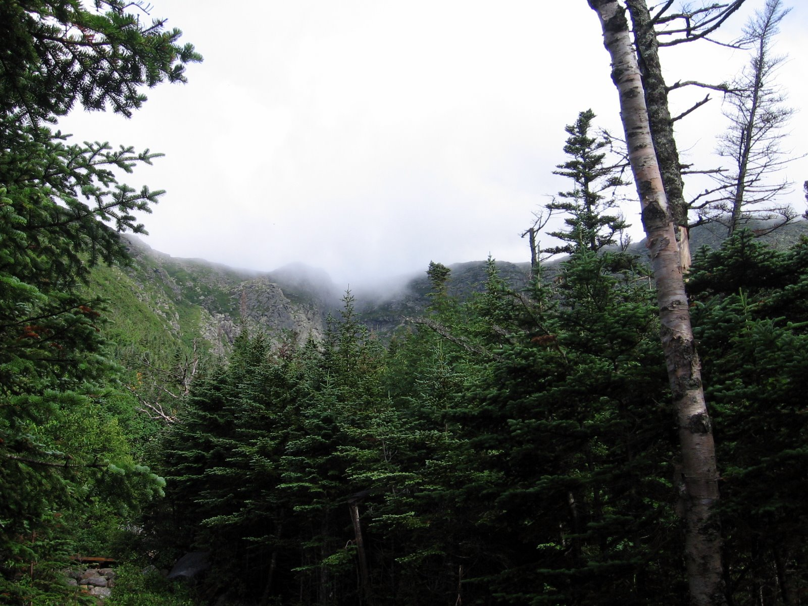 Abies balsamea forest, Huntington Ravine, Mt. Washington, New Hampshire